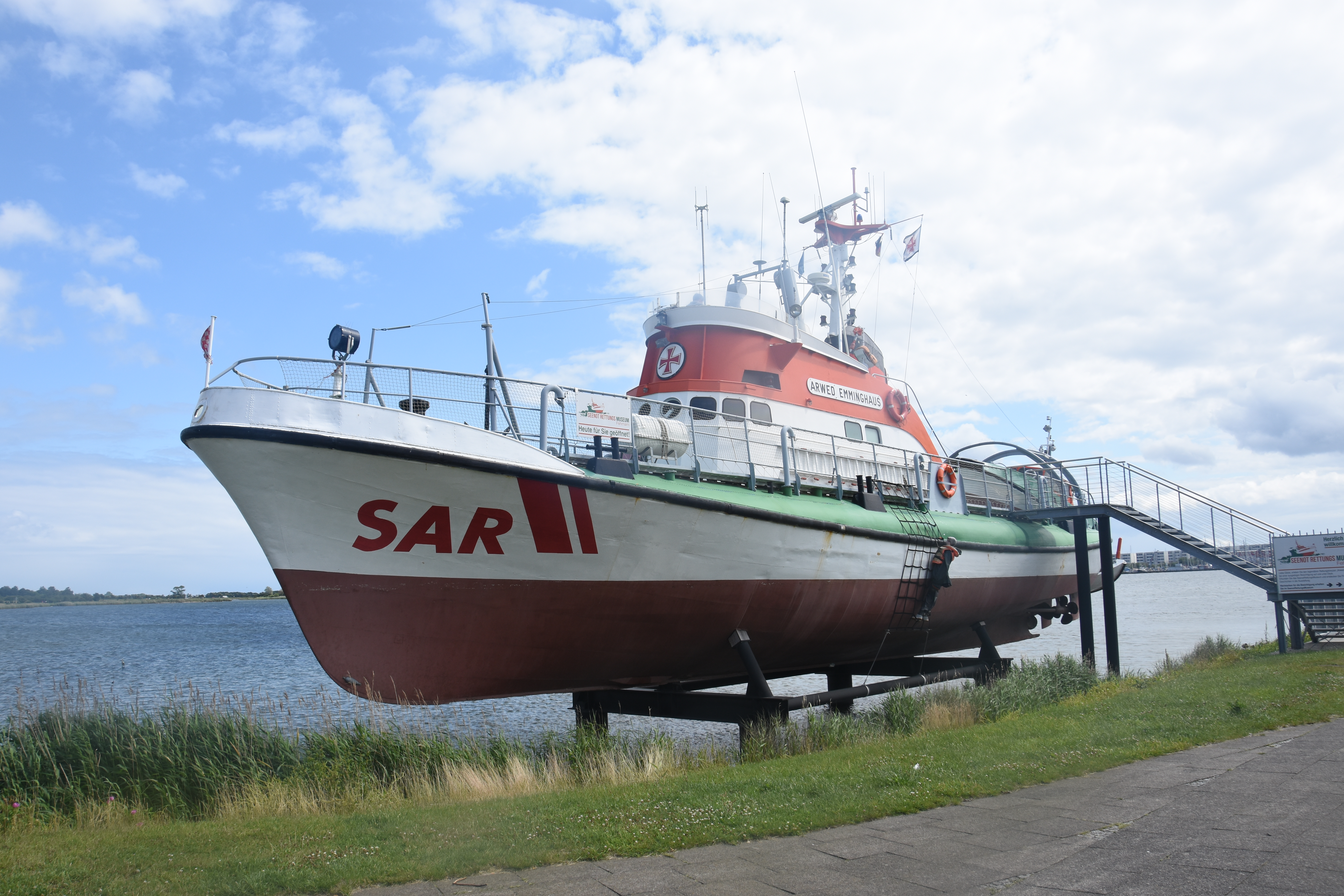 Former SAR Unit Arwed Emminghaus as a museum ship in Burgstaaken, Germany